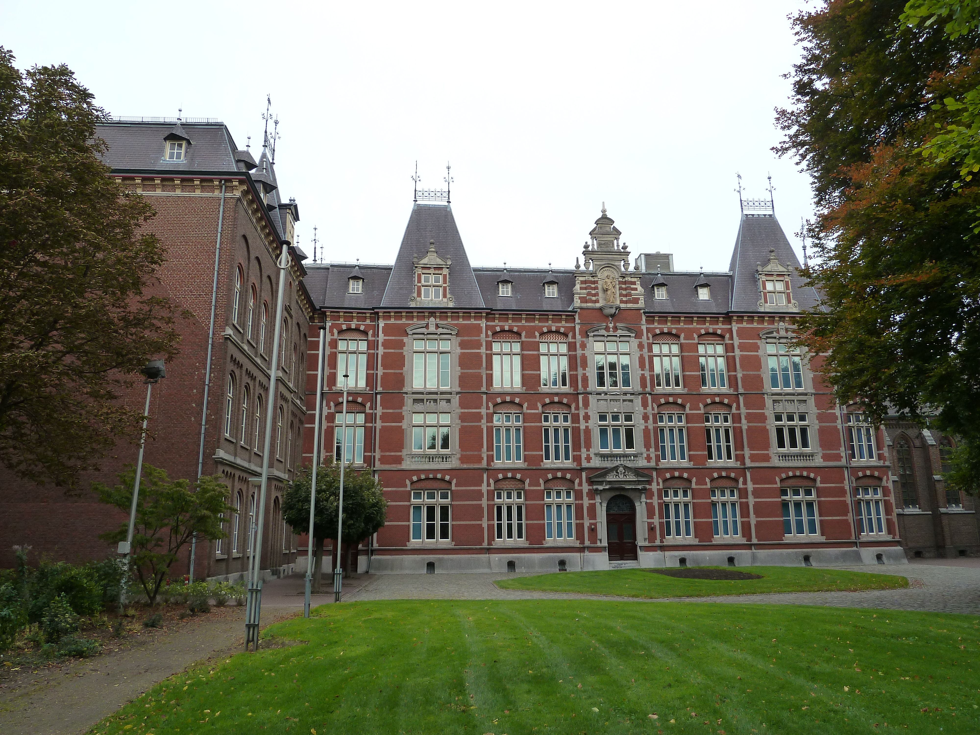 City hall, Breusterstraat 27, Eijsden, Limburg, the Netherlands